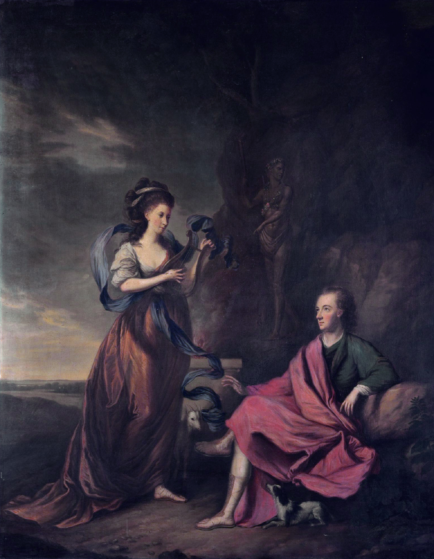 Arthur Wolfe, 1st Viscount Kilwarden and his wife Anne oil on canvas 125 x 99.5 cm 1769